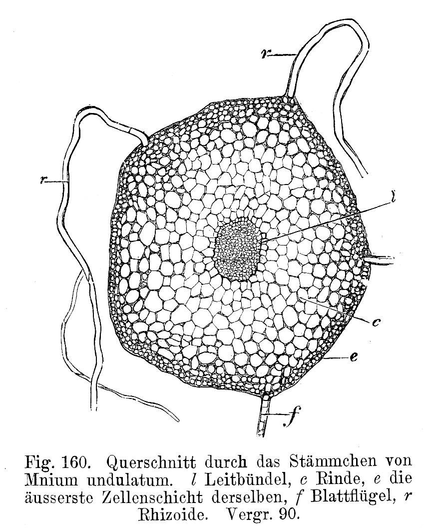 Mnium undulatum, cross section of stem